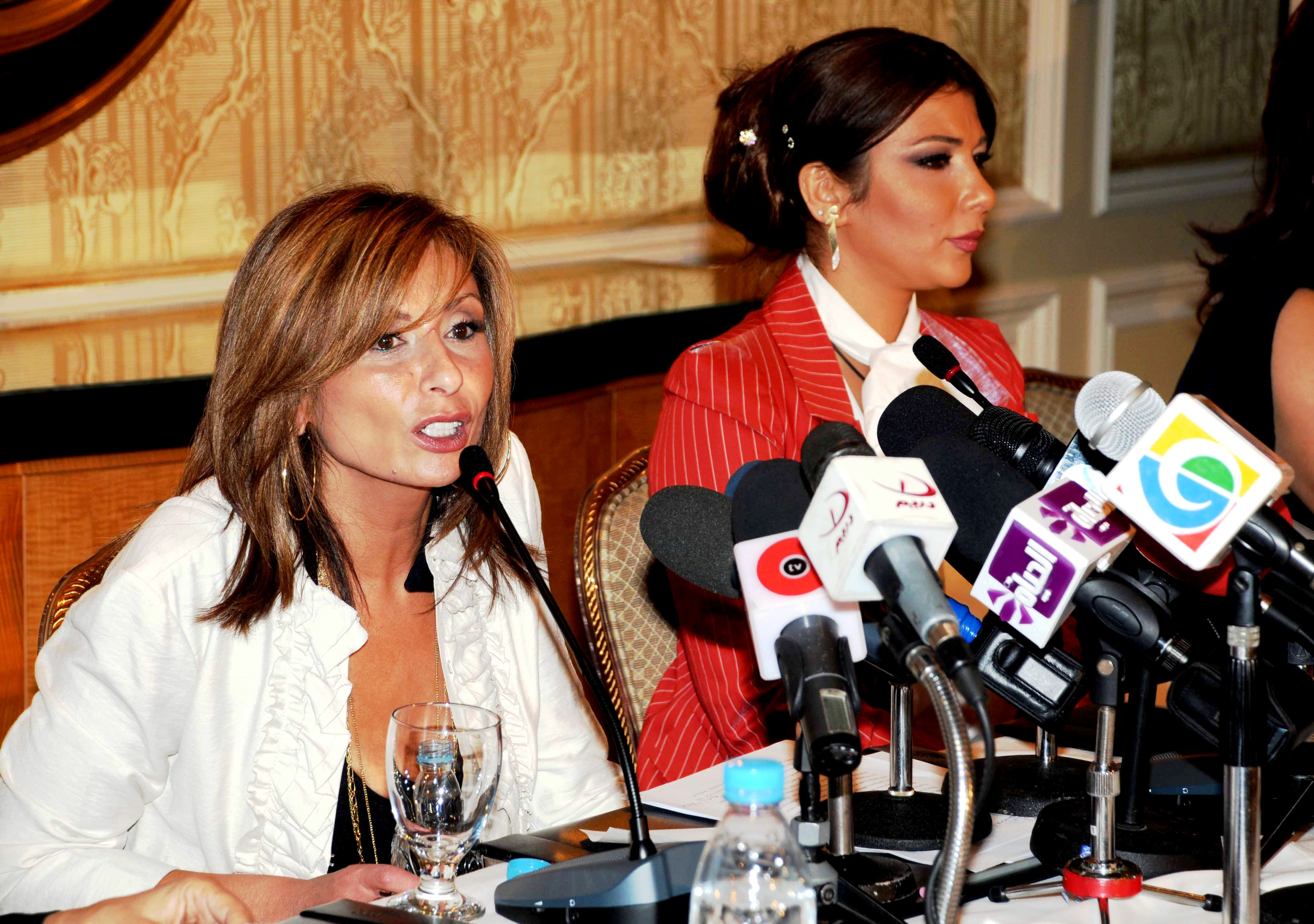 Dawn Elder, Music Producer, Producer, Luminary Syrian Singer Assala Press Conference in Egypt Sahra